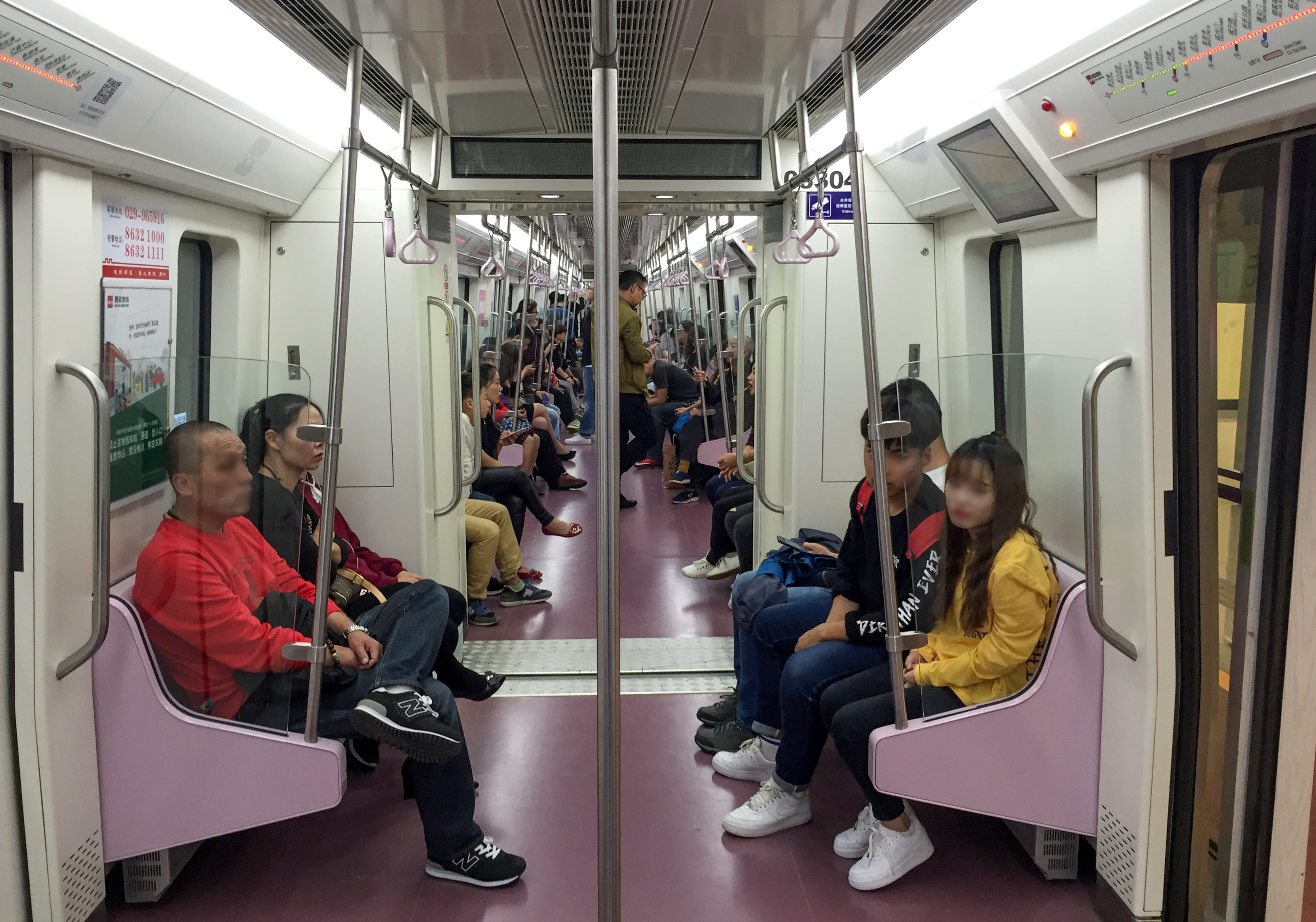 The train of Xi'an Metro Line 3 has something similar to Beijing Subway Line 5...